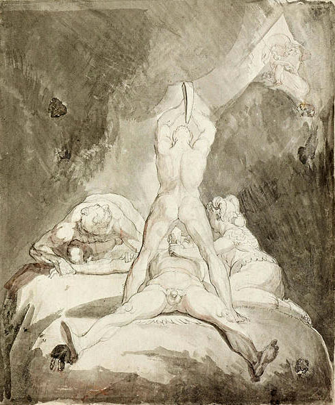 Hephaestus, Bia and Crato Securing Prometheus on Mount Caucasus, Pencil (c 1800 - c 1810), Auckland Art Gallery, New Zealand